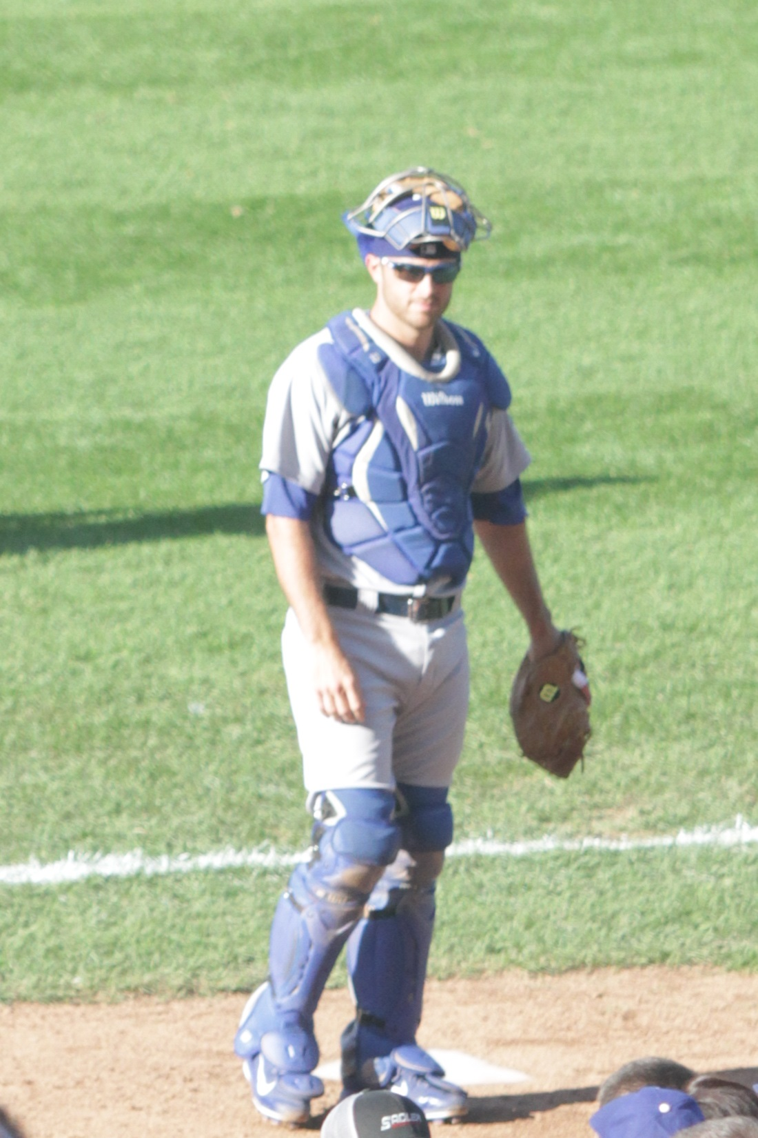 Drew Butera with the 2014 Los Angeles Dodgers